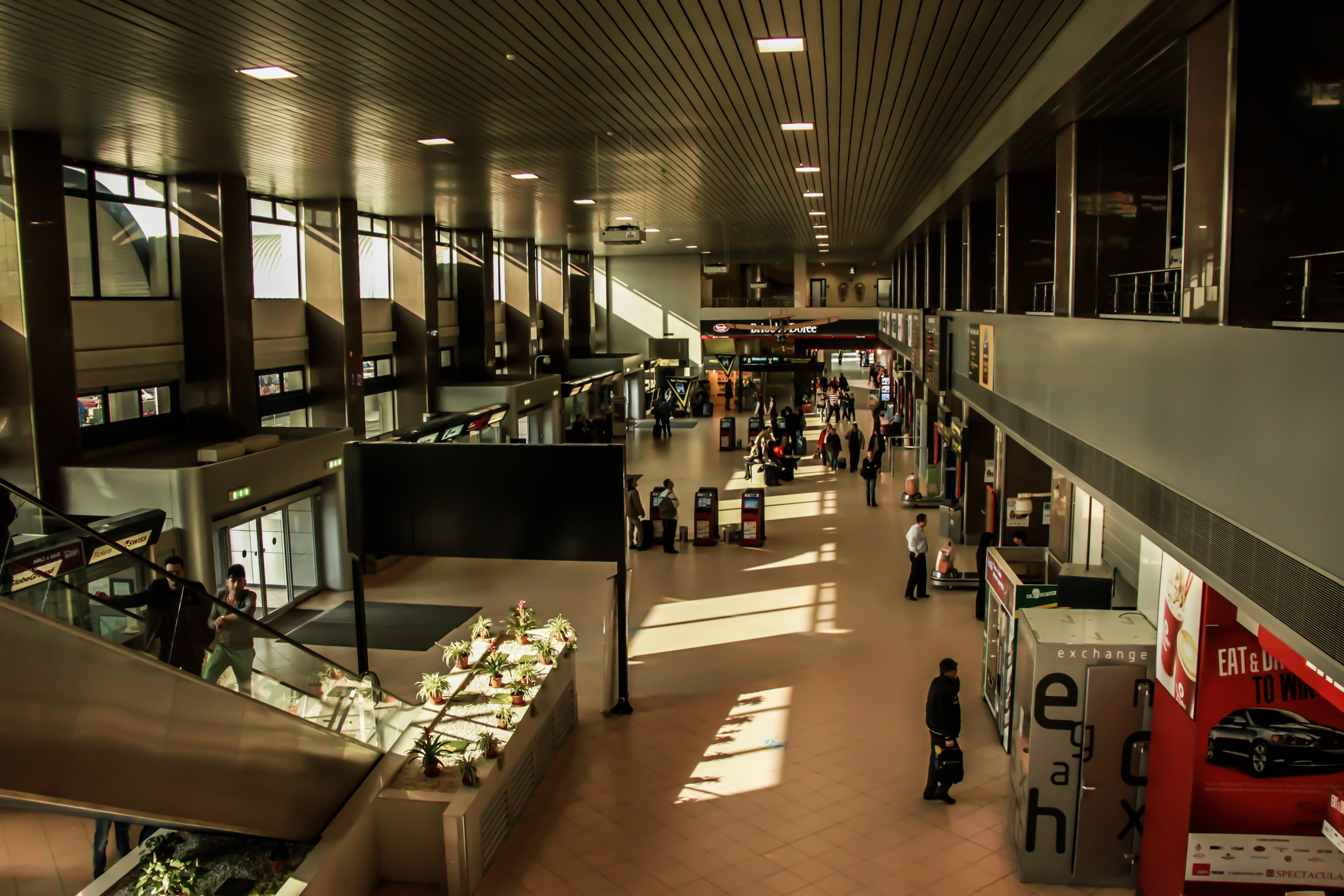 Terminal at Henri Coanda International Airport, Bucharest